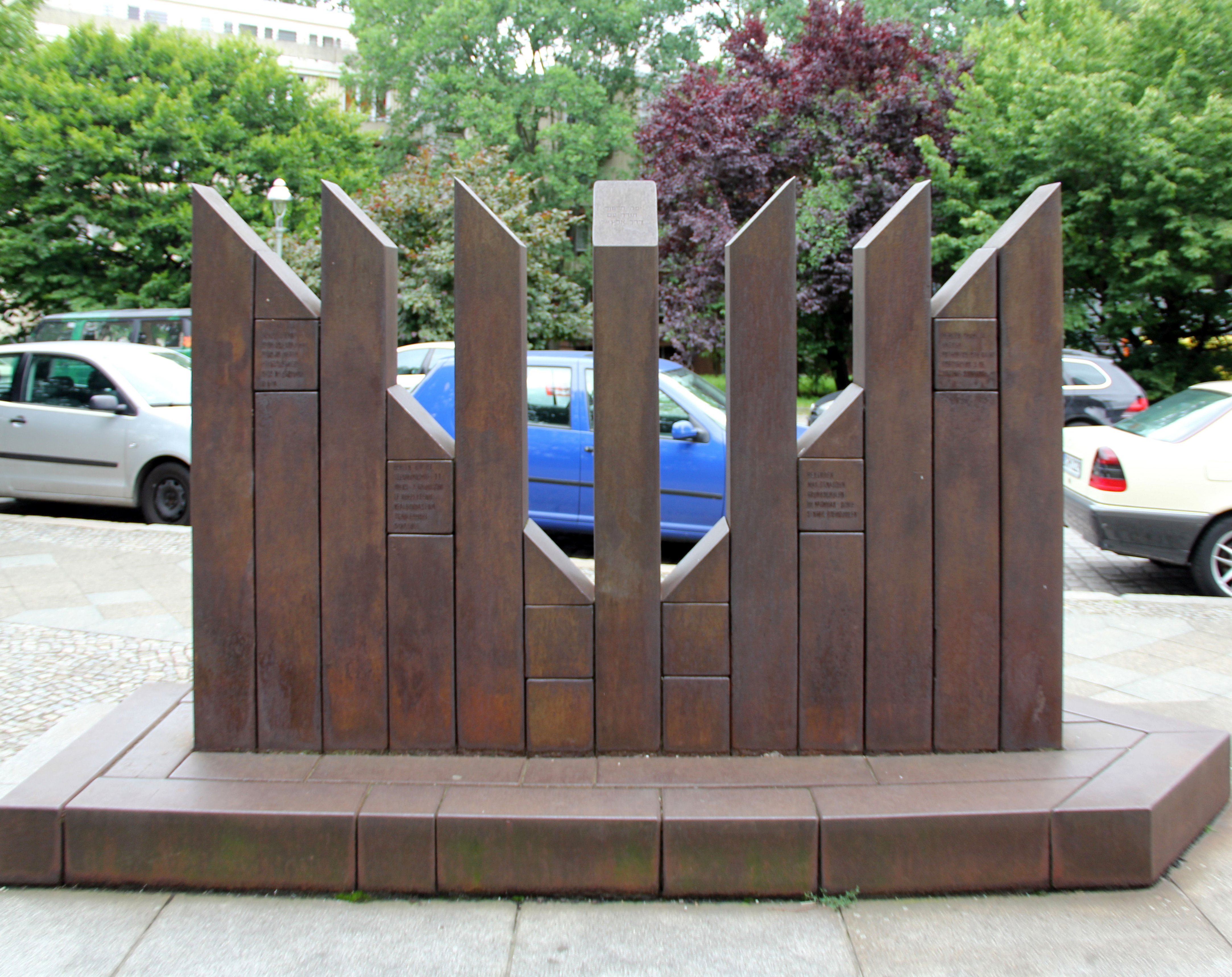 Memorial, "Erinnerung" by Georg Seibert, 1985/86, Siegmunds Hof 11, Berlin-Hansaviertel, Germany